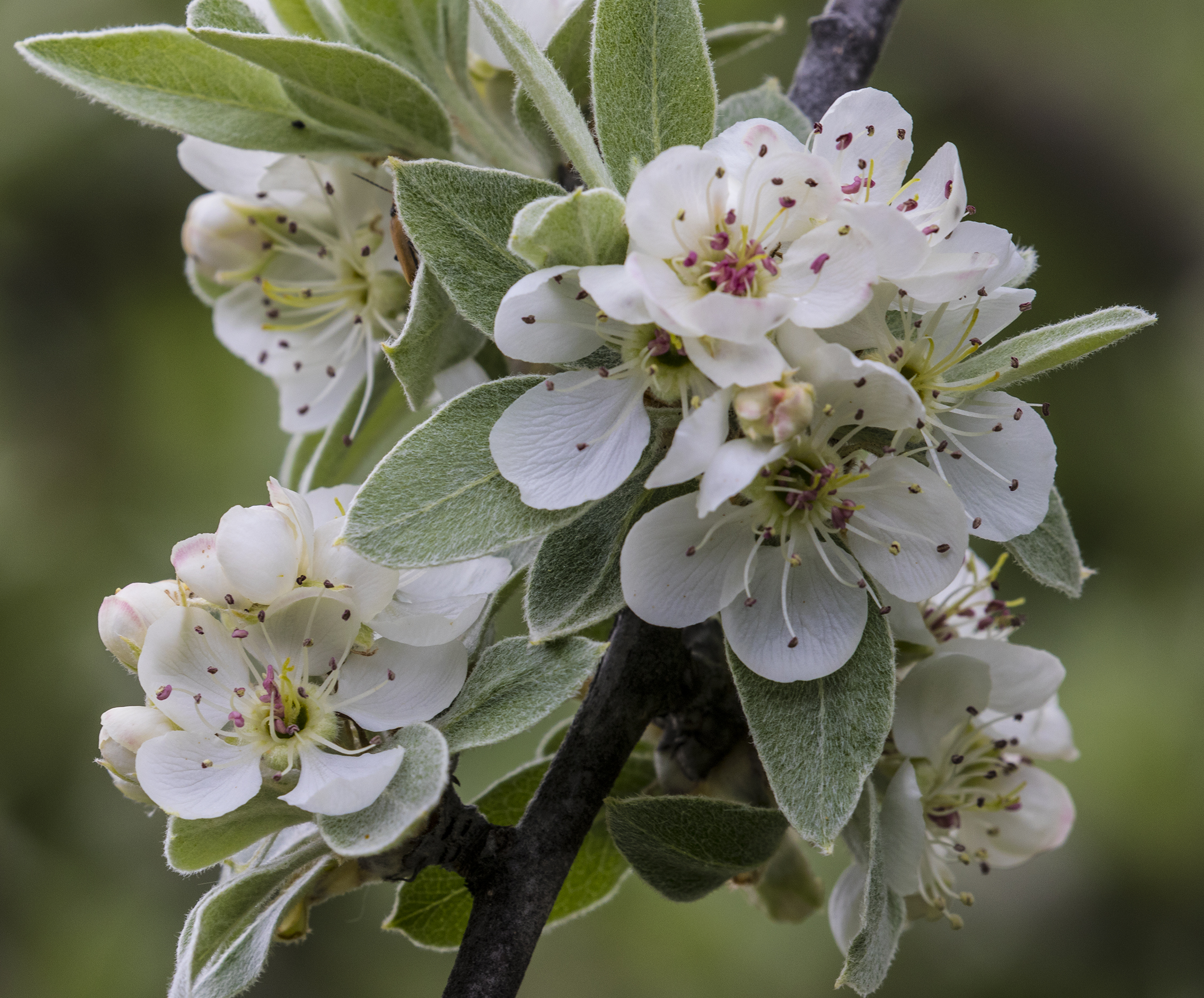 Flowers of oleaster-leafed pear (Pyrus elaeagrifolia), a species of wild pears. Dutlupınar-Saimbeyli, Adana, Turkey.